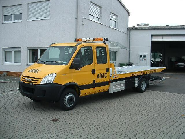 Iveco Daily